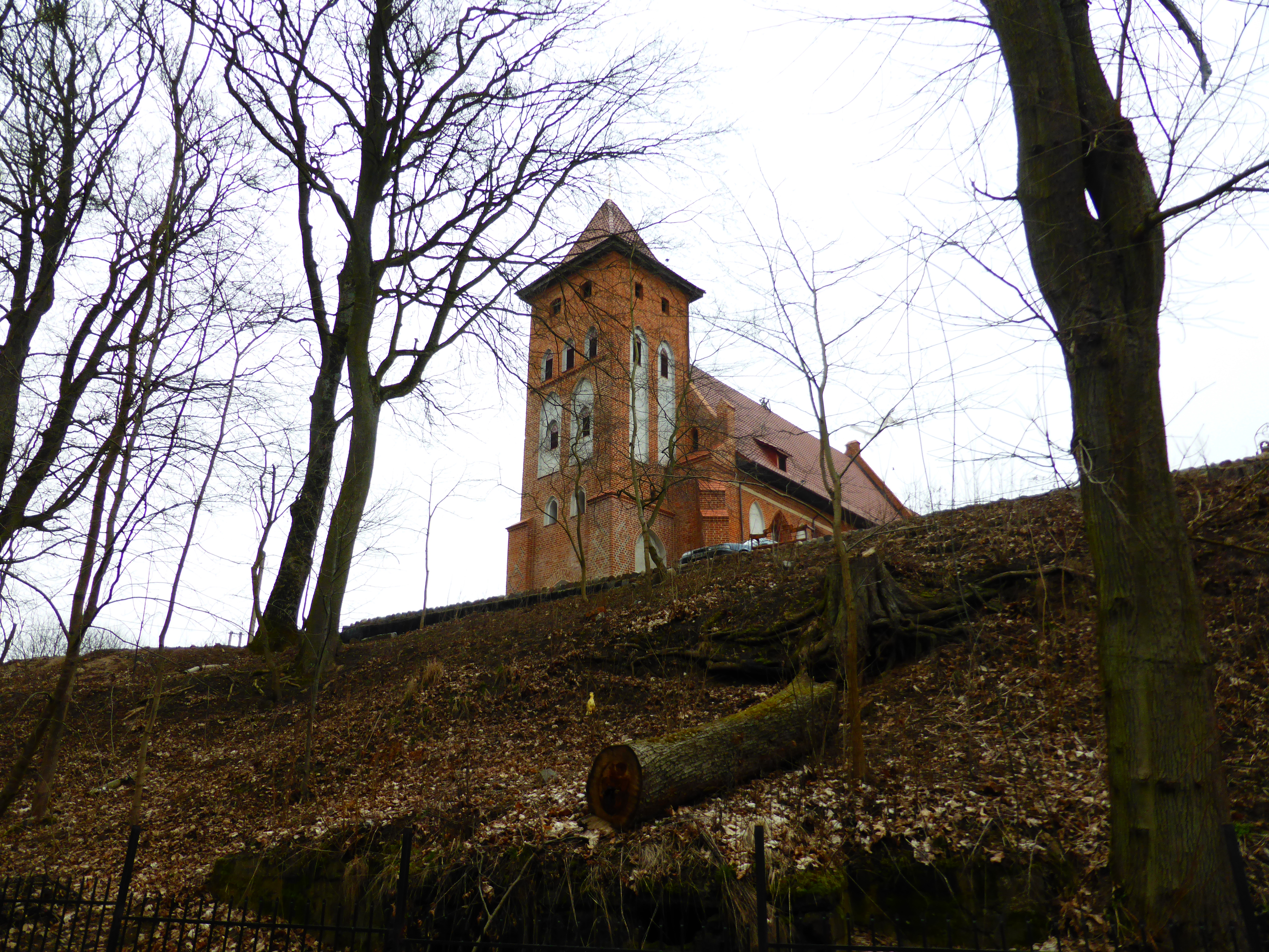 Arnau Church